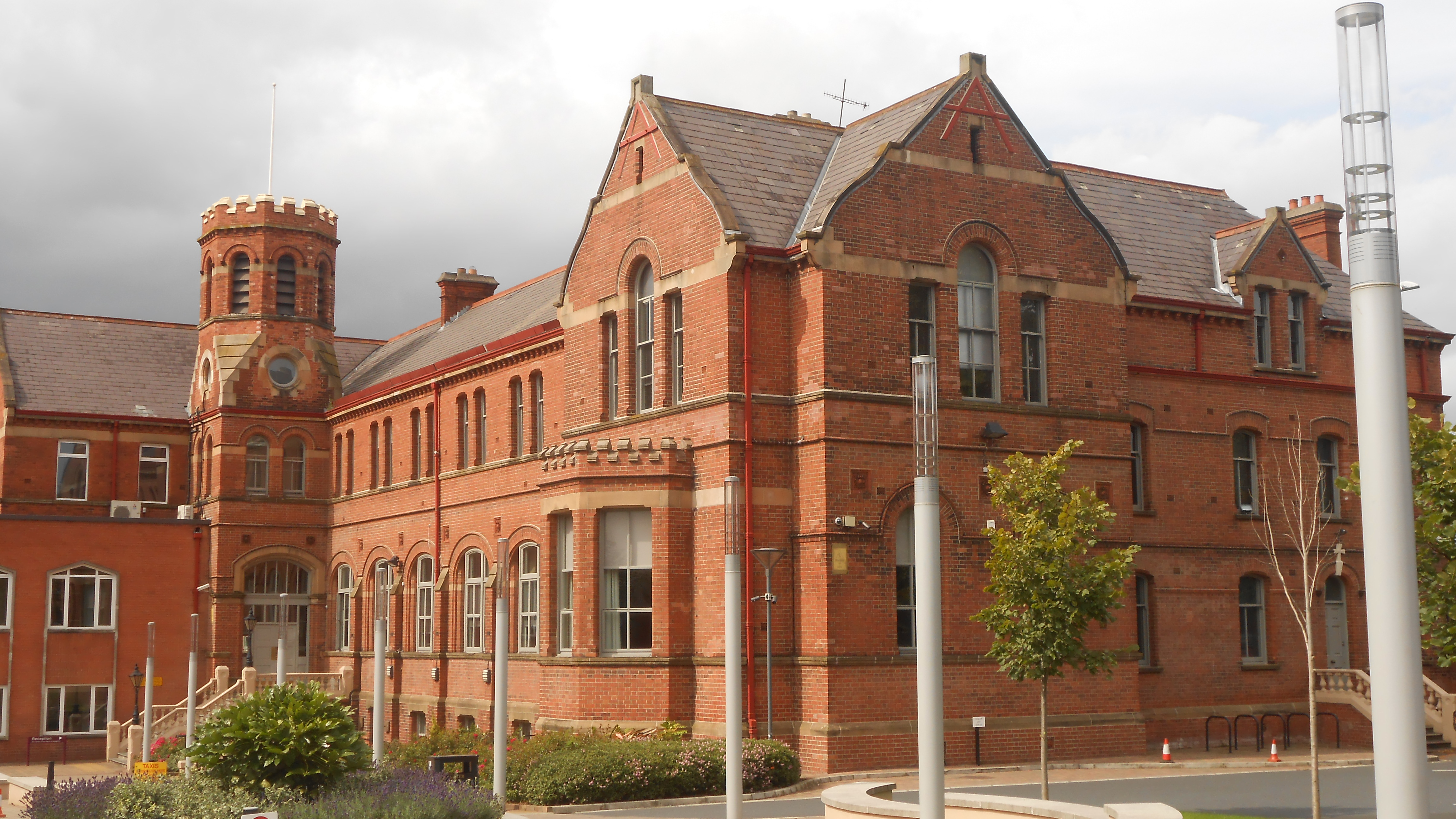 Main entrance to the St. Mary's University College at Falls Road in Belfast.